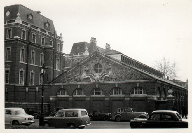 Knightsbridge Barracks c1959